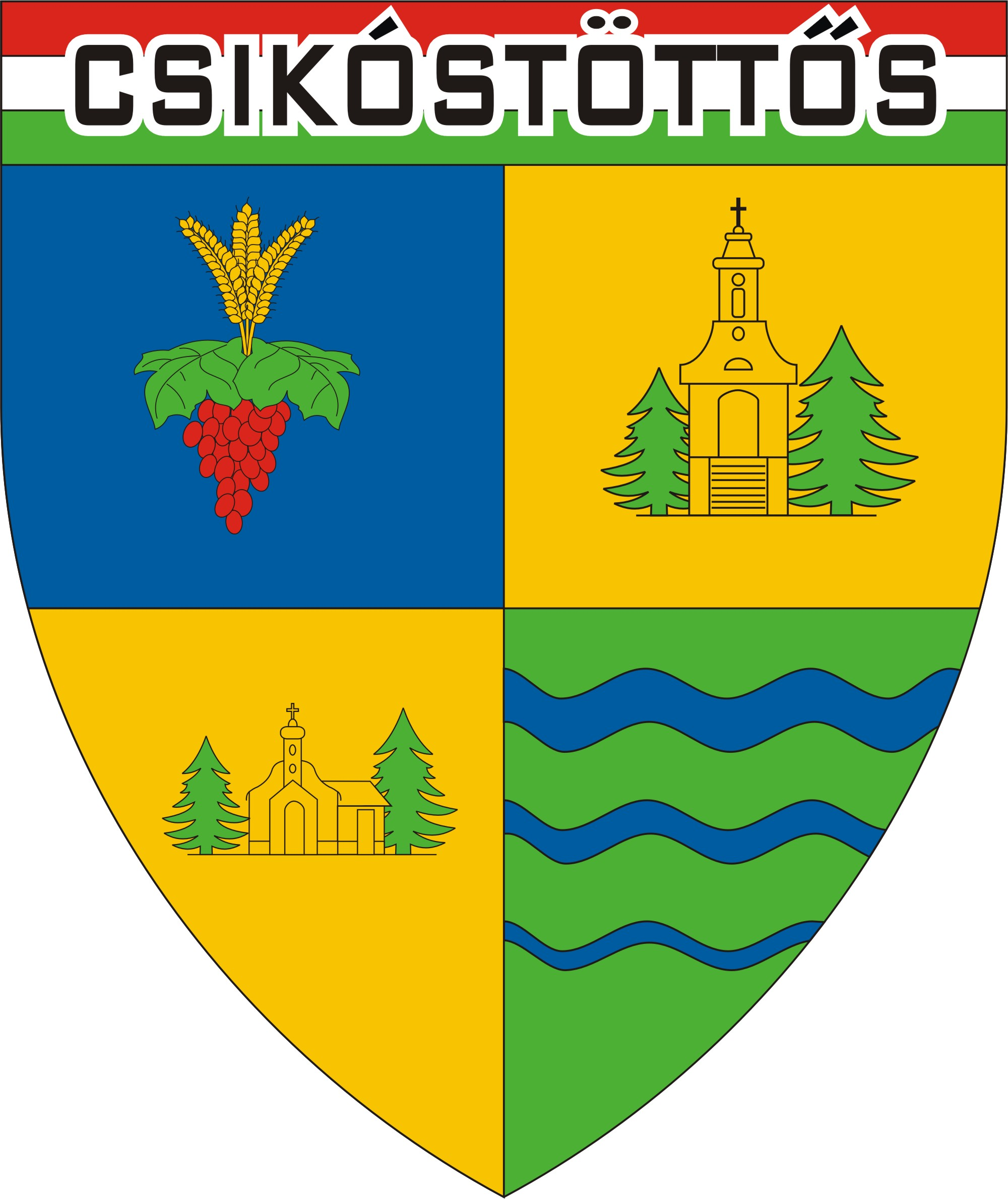 Coat of arms of Csikóstőttős, Hungary